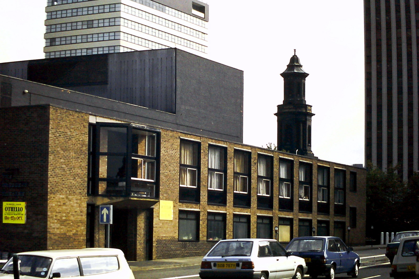 The original Crescent Theatre by Grham Winteringham on Cumberland Street, Birmingham.